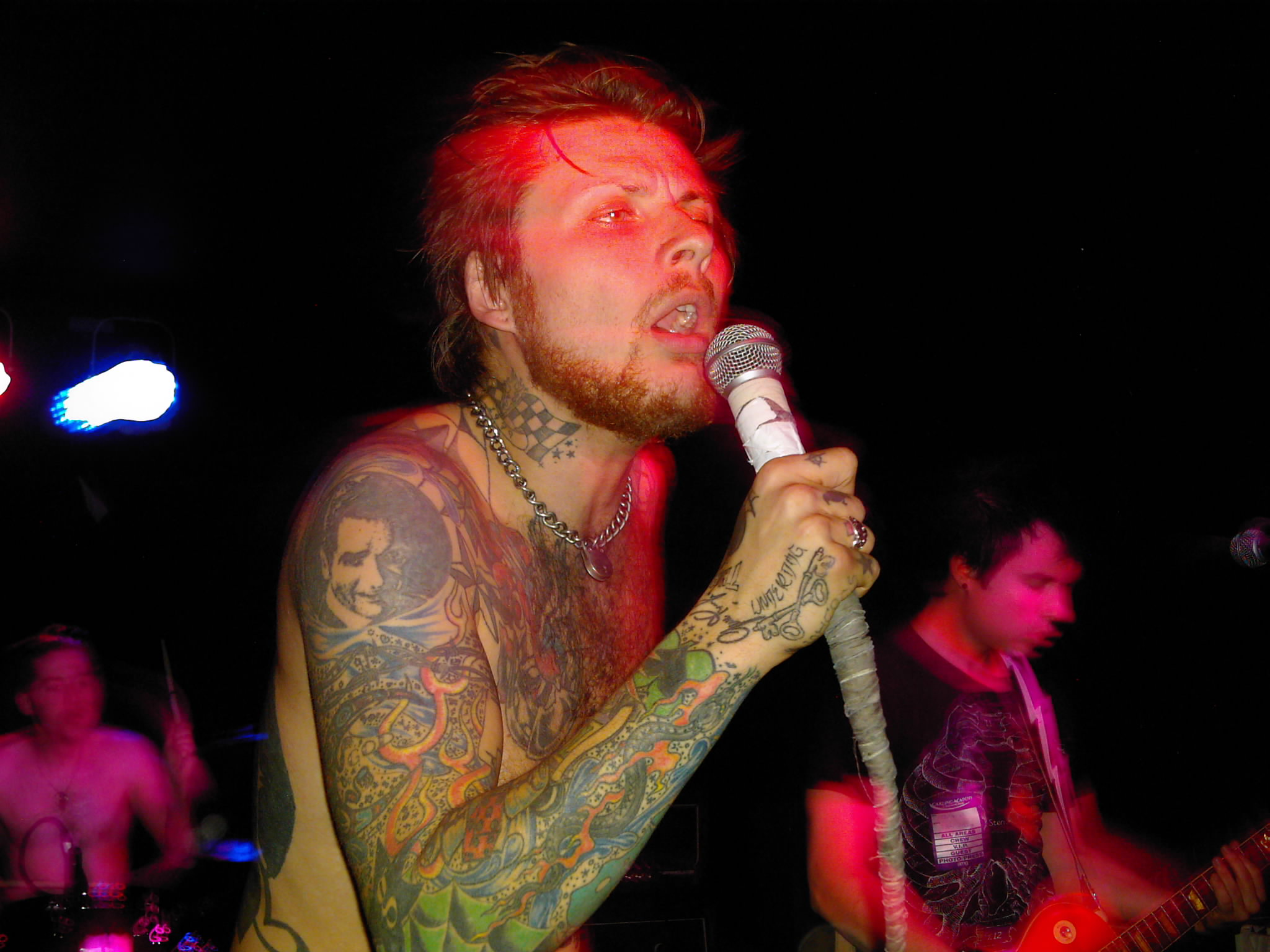 Gene Louis - live